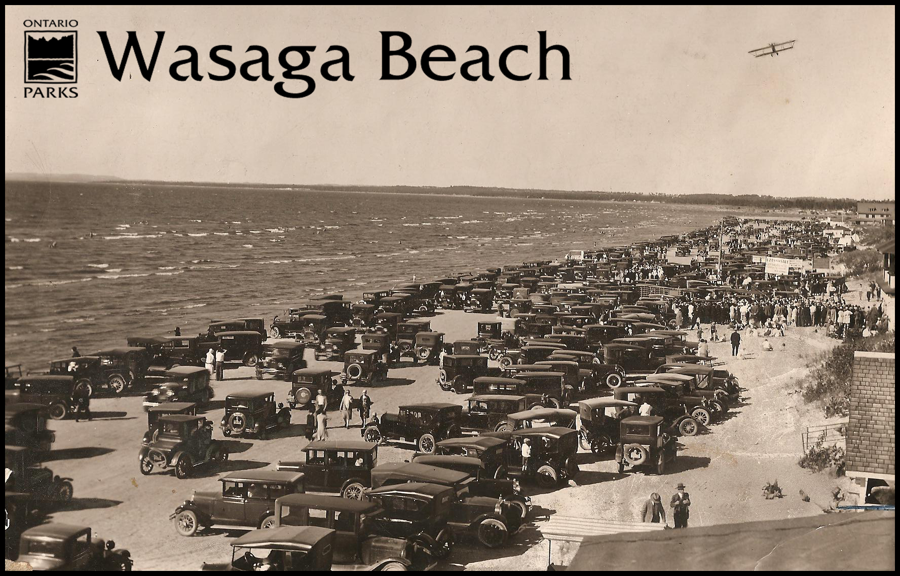 Wasaga Beach, post card 1920